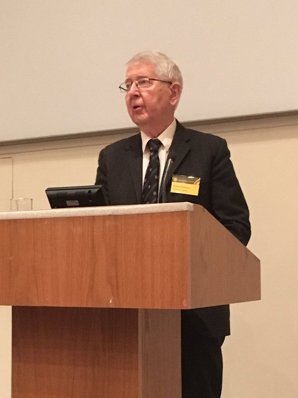 Charles Henry Emeleus receiving the 2016 Prestwich Medal at The Geological Society of London, Burlington House, London, UK.